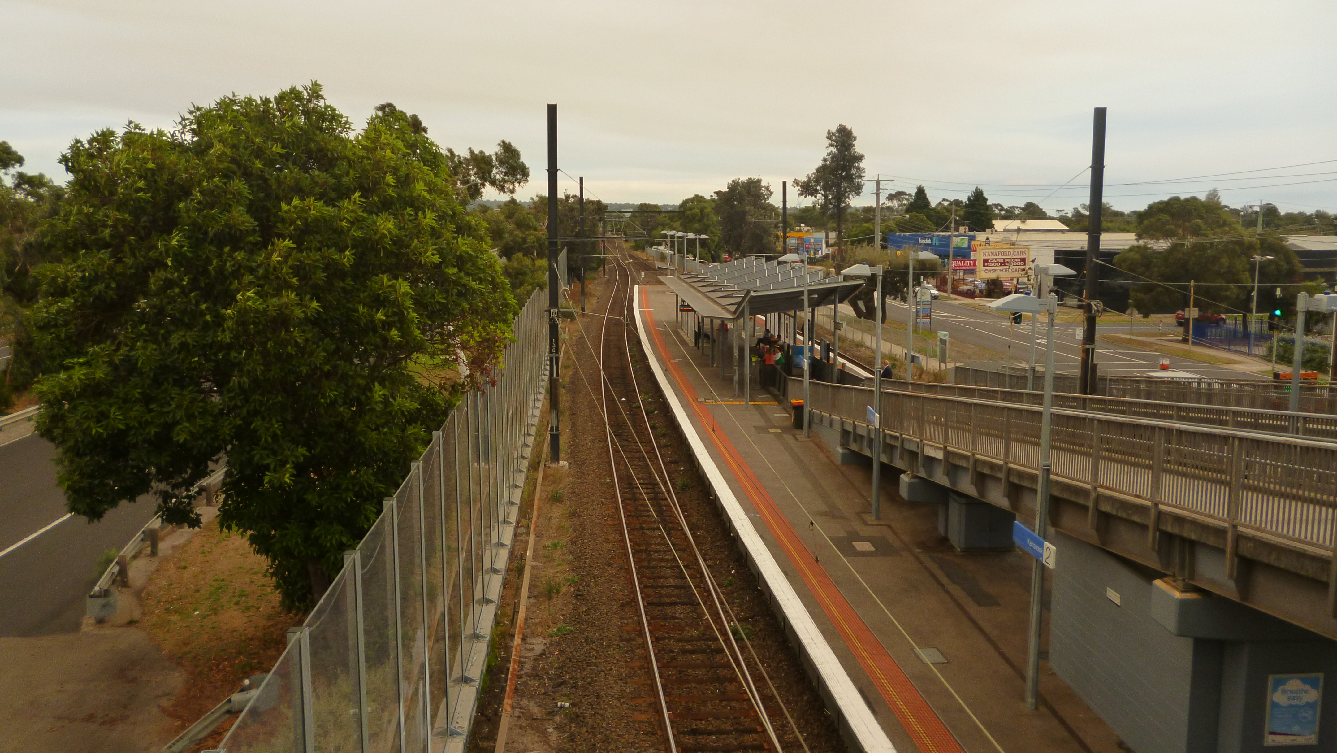 Photograph of Kananook railway station, Melbourne. View from pedestrian overpass looking south.